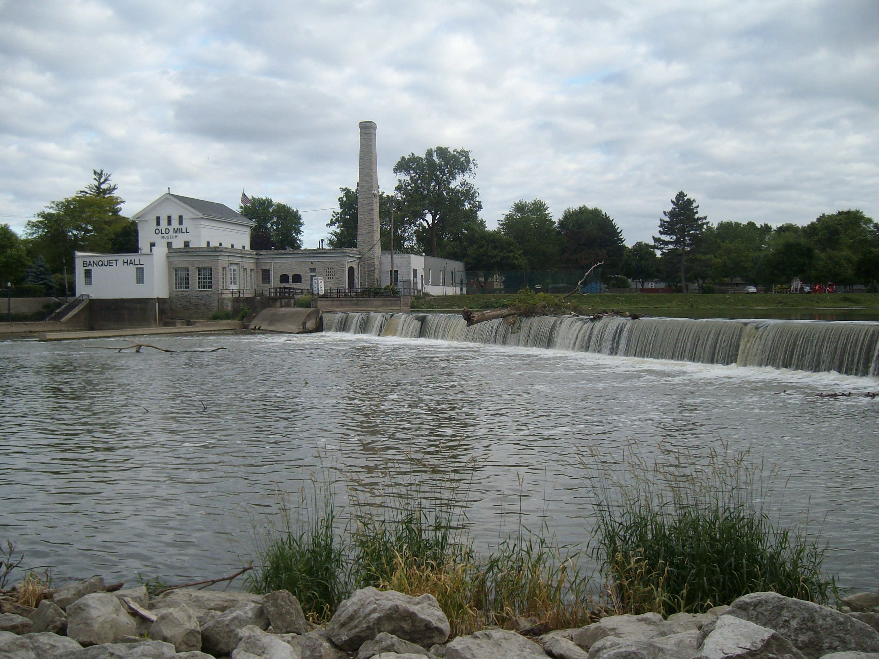 Old Mill Museum during regular water levels.